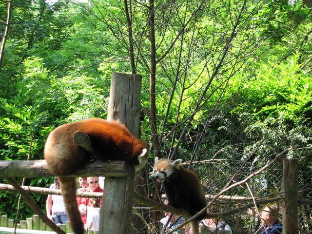 Red Panda and Young At Dublin Zoo. This photo shows a Red Panda with its young at Dublin zoo.